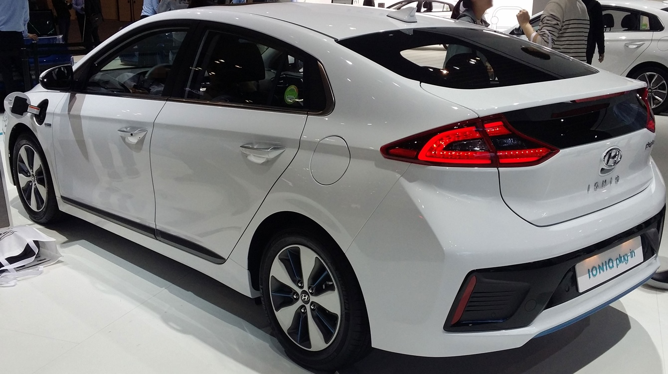 Hyundai Ioniq Plug-In